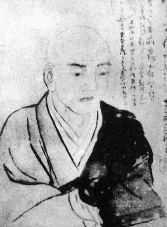 Japanese monk Gesshō (月照)